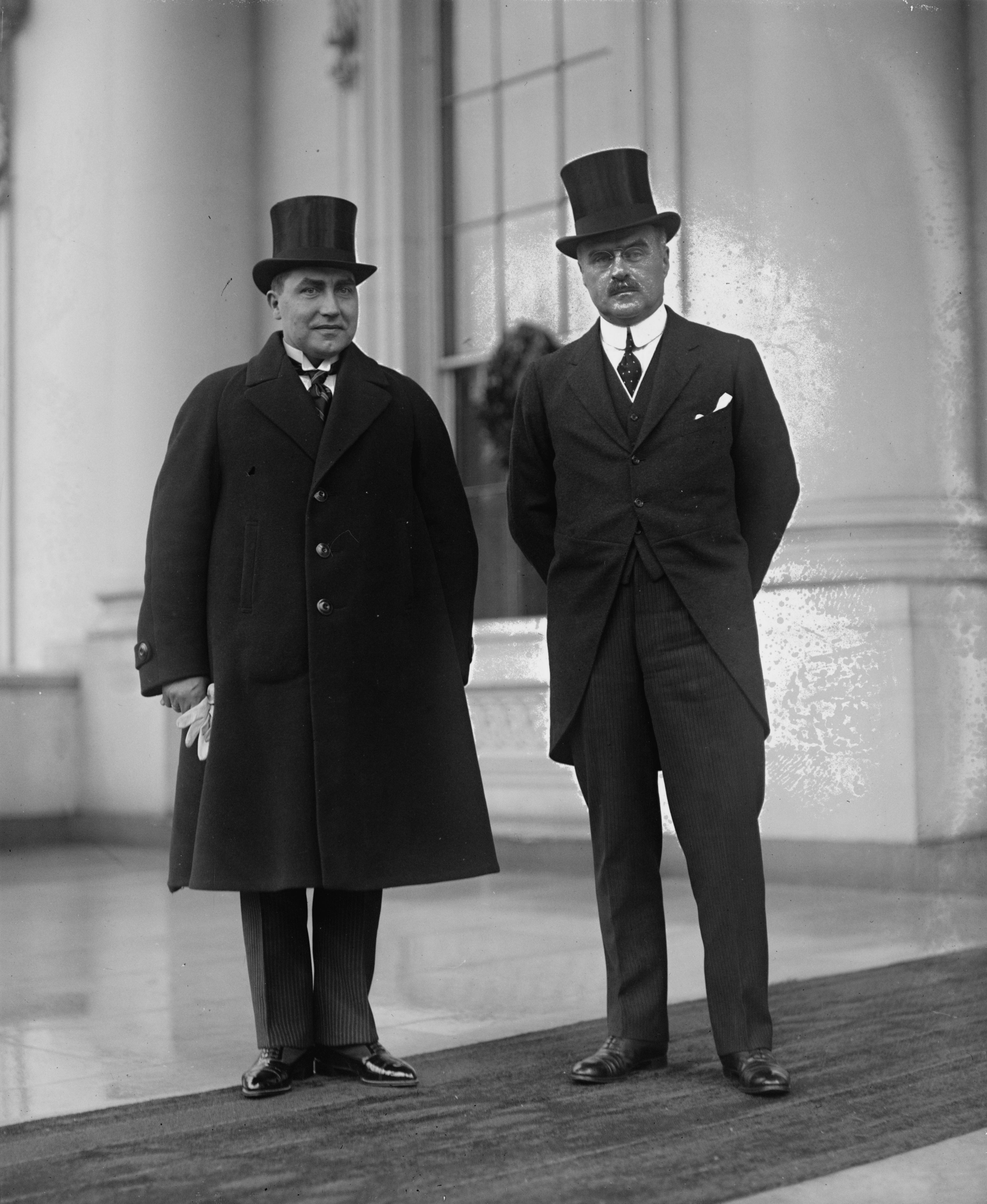 Ants Piip, Estonian politician, pictured on the day he "presented credentials as Estonian minister to the United States" ([1]), together with J. Butler Wright. Taken at the North Portico of the White House (judging from the background of the photo).